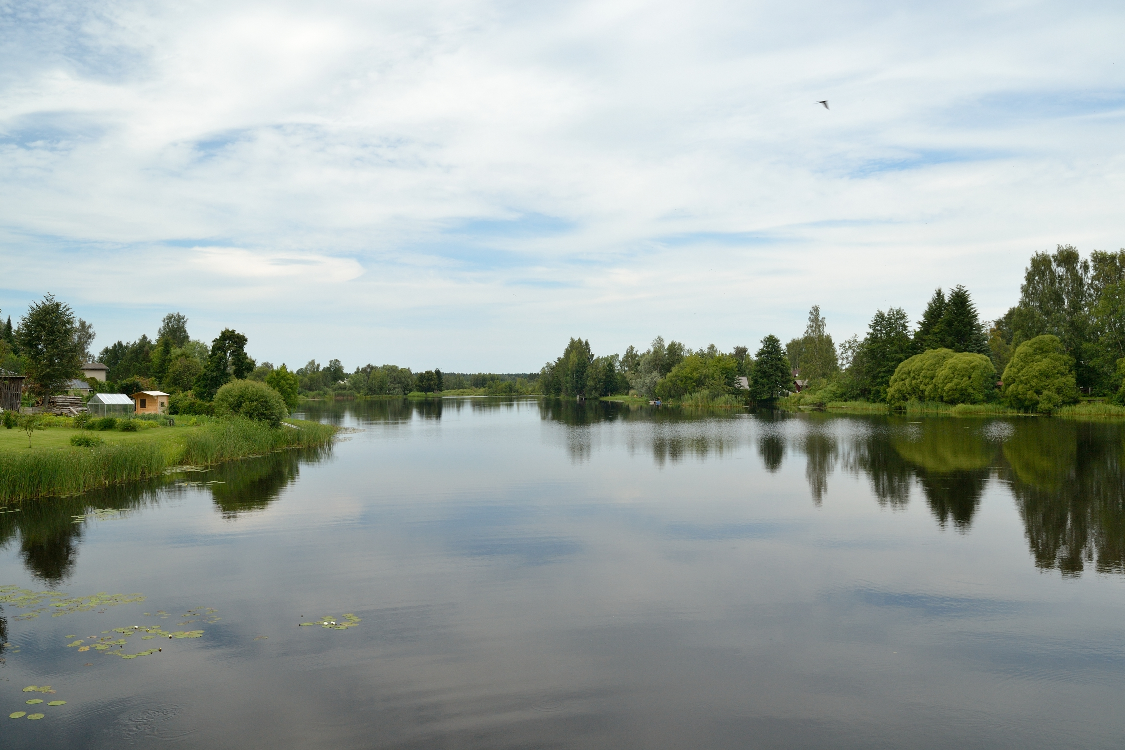 Lake Räpina on Võhandu river